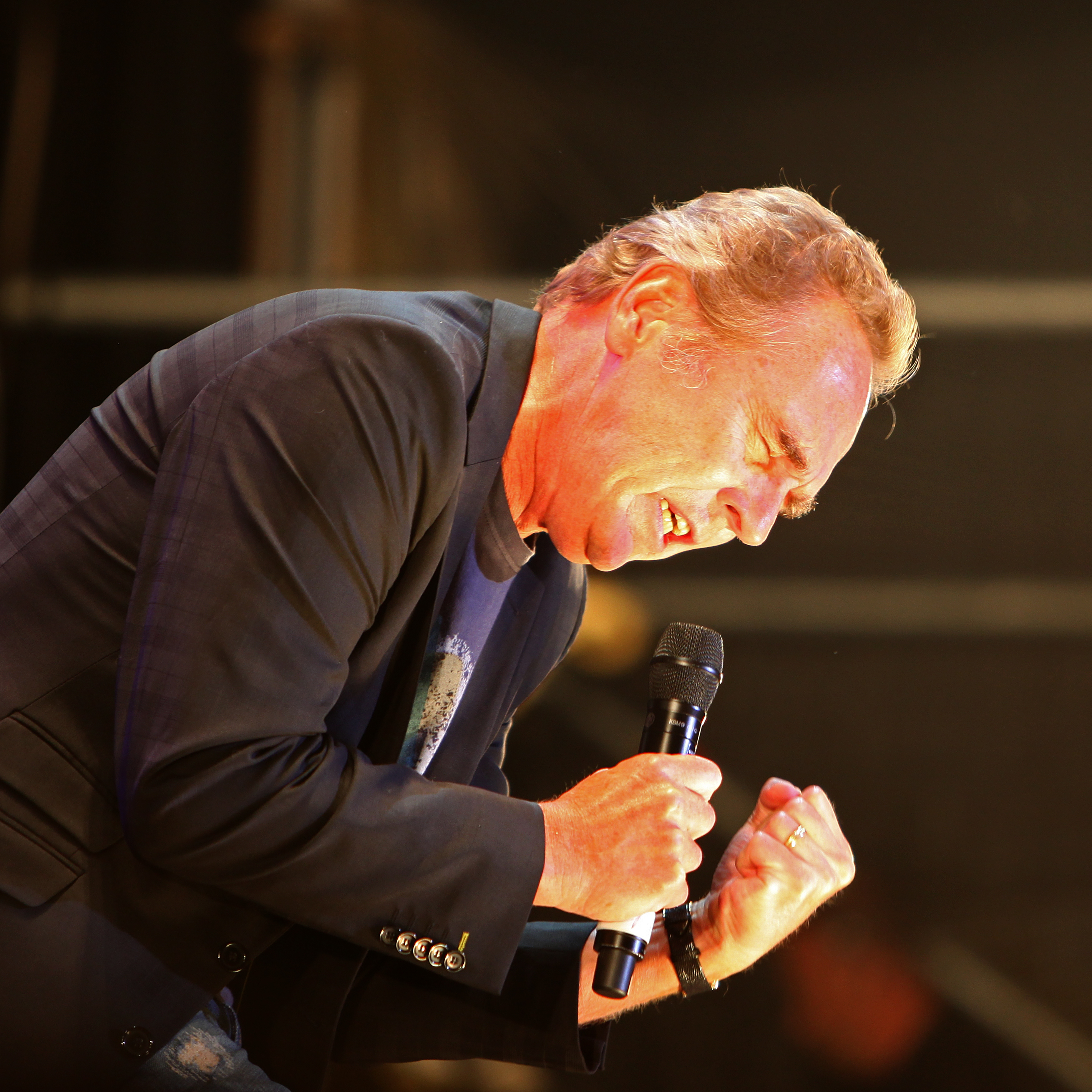 Swedish comedian Lennie Norman during a Rhapsody in Rock concert in Stockholm.